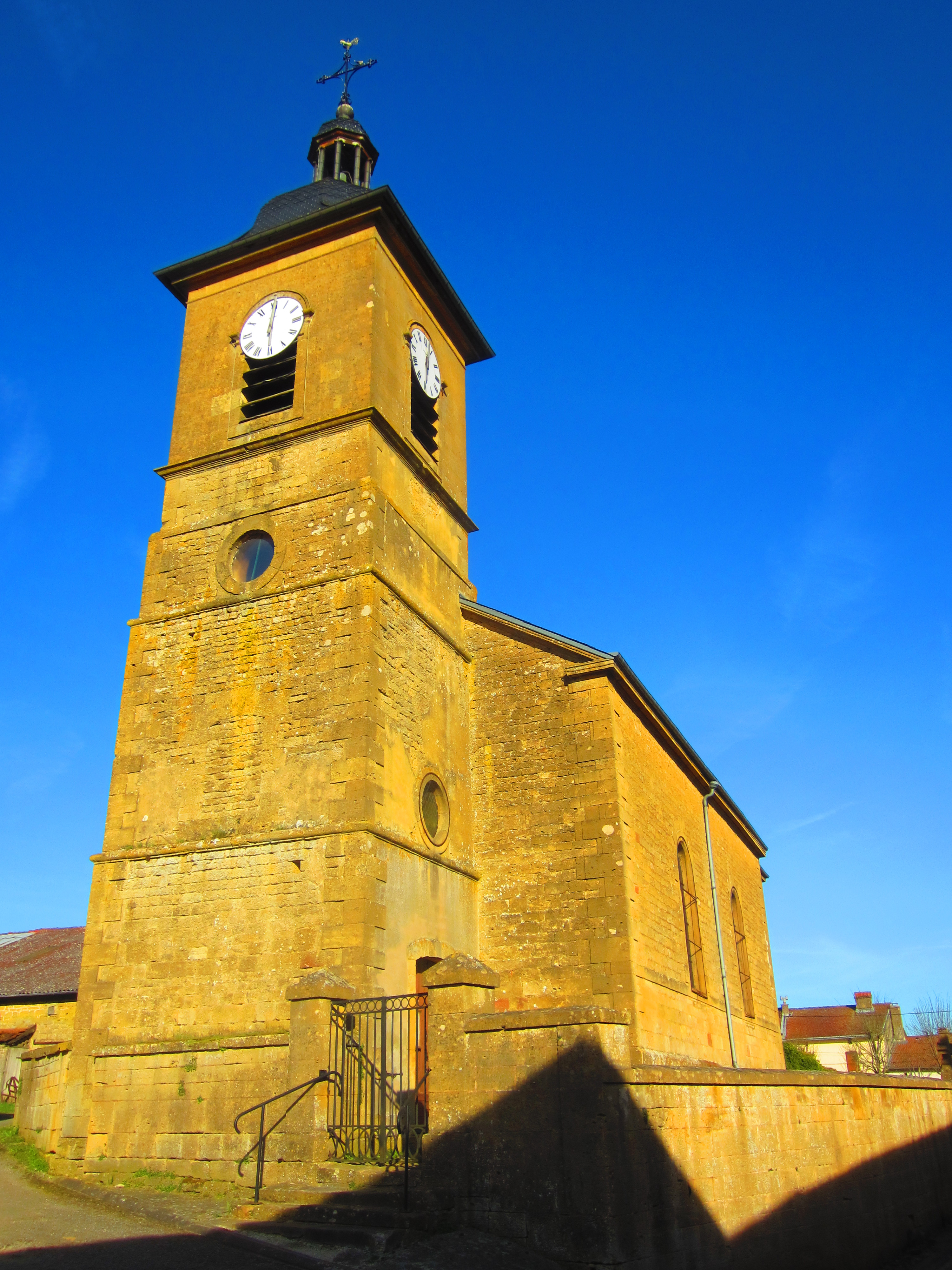 Bazeilles Othain church